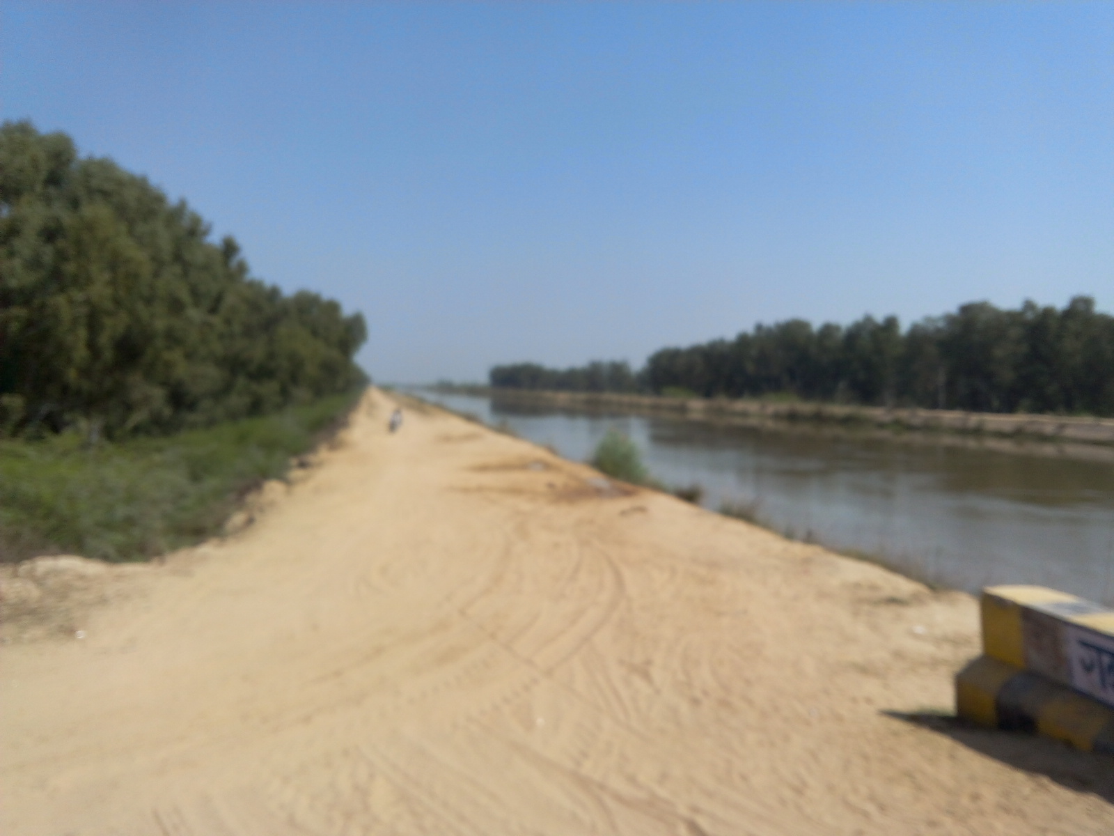 Indira Gandhi canal near Lakhuwali Village,India.